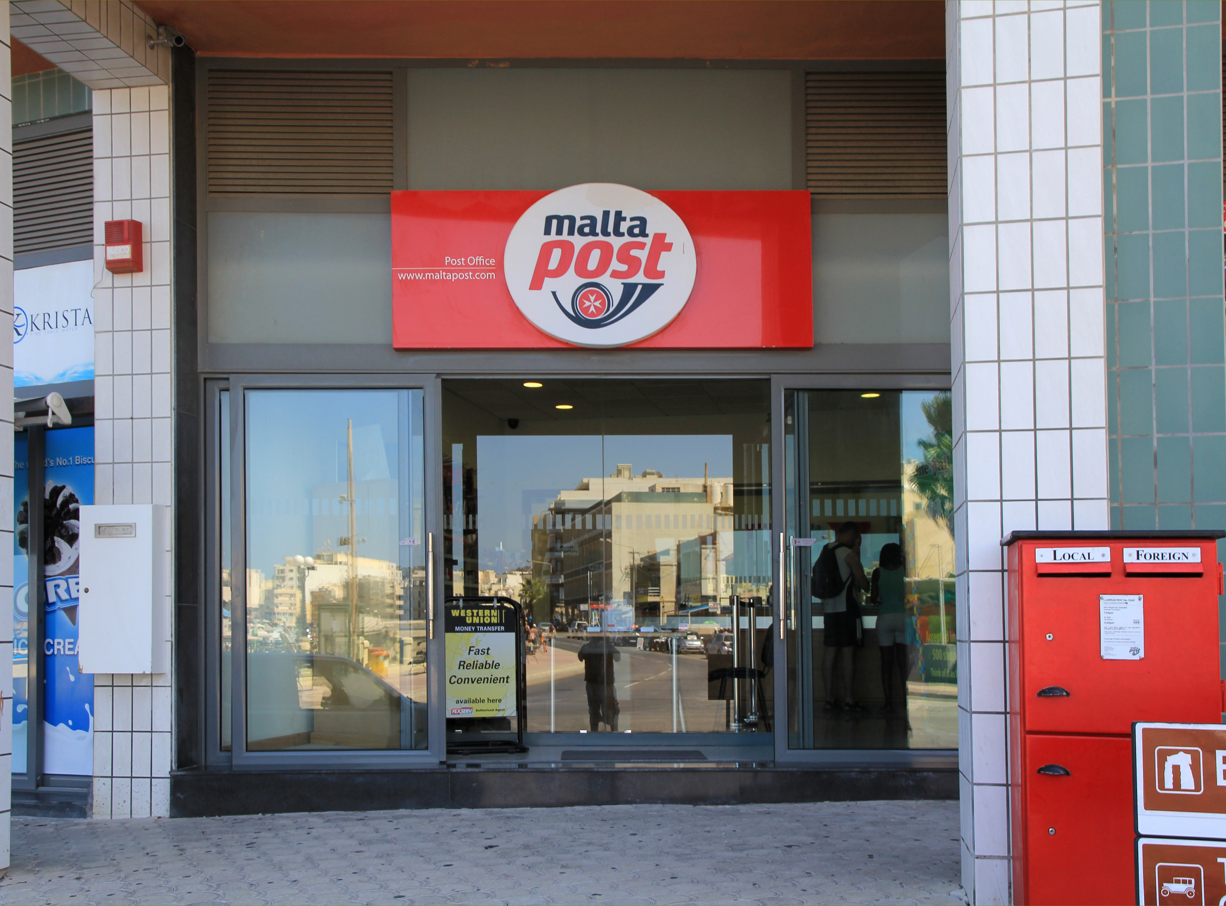 Post office in building of Hotel Dolmen Resort, Bugibba, Malta